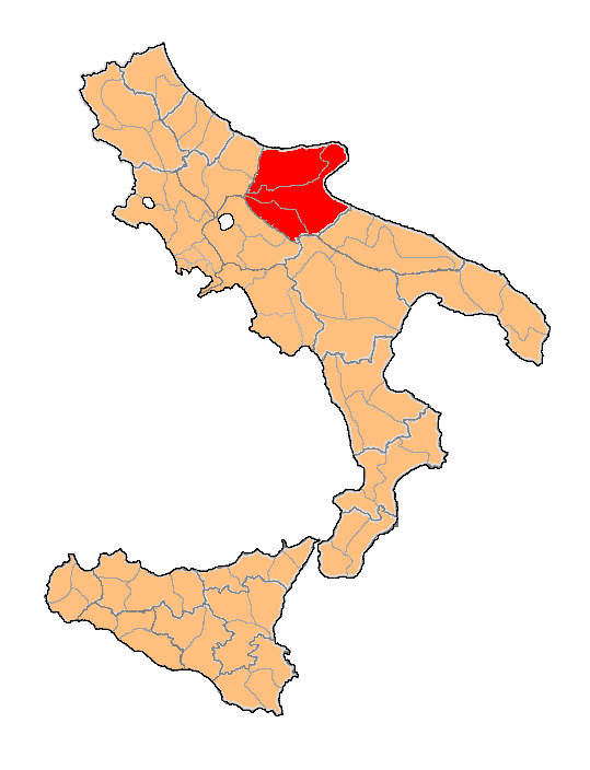 Department of Capitanata, of Kingdom of the Two Sicilies